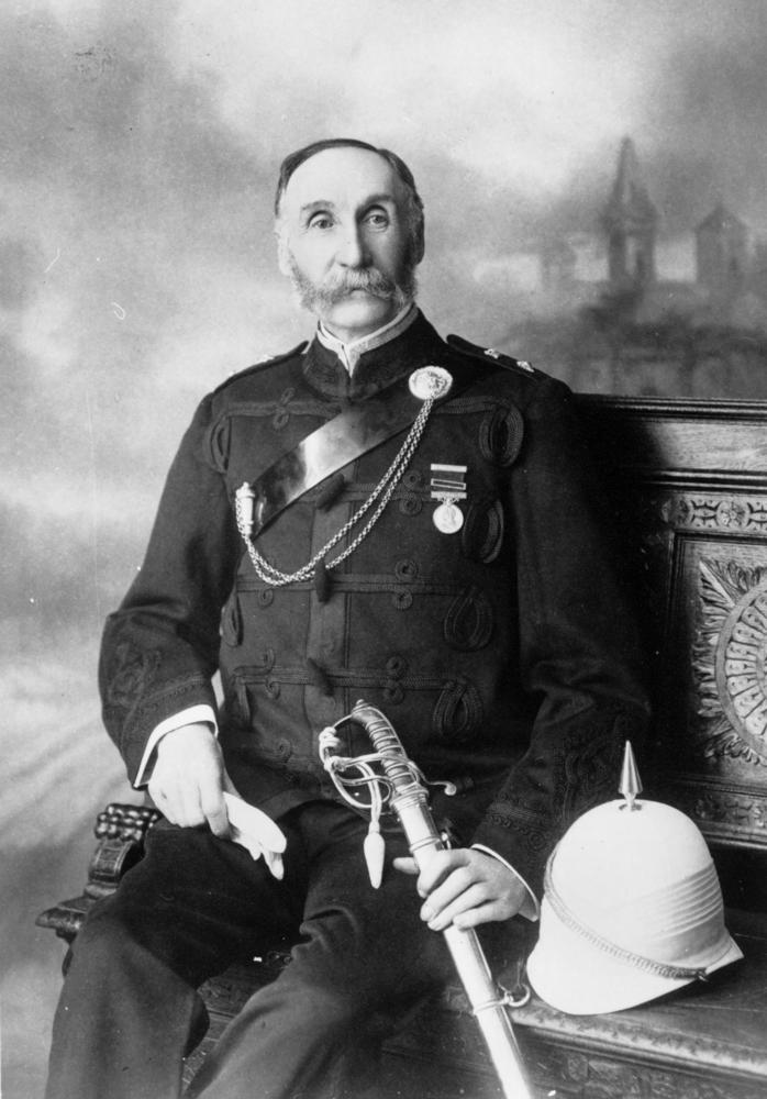 William Parry-Okeden dressed in his military uniform, ca. 1870 Photographer: Tosca, Queen Street, Brisbane.